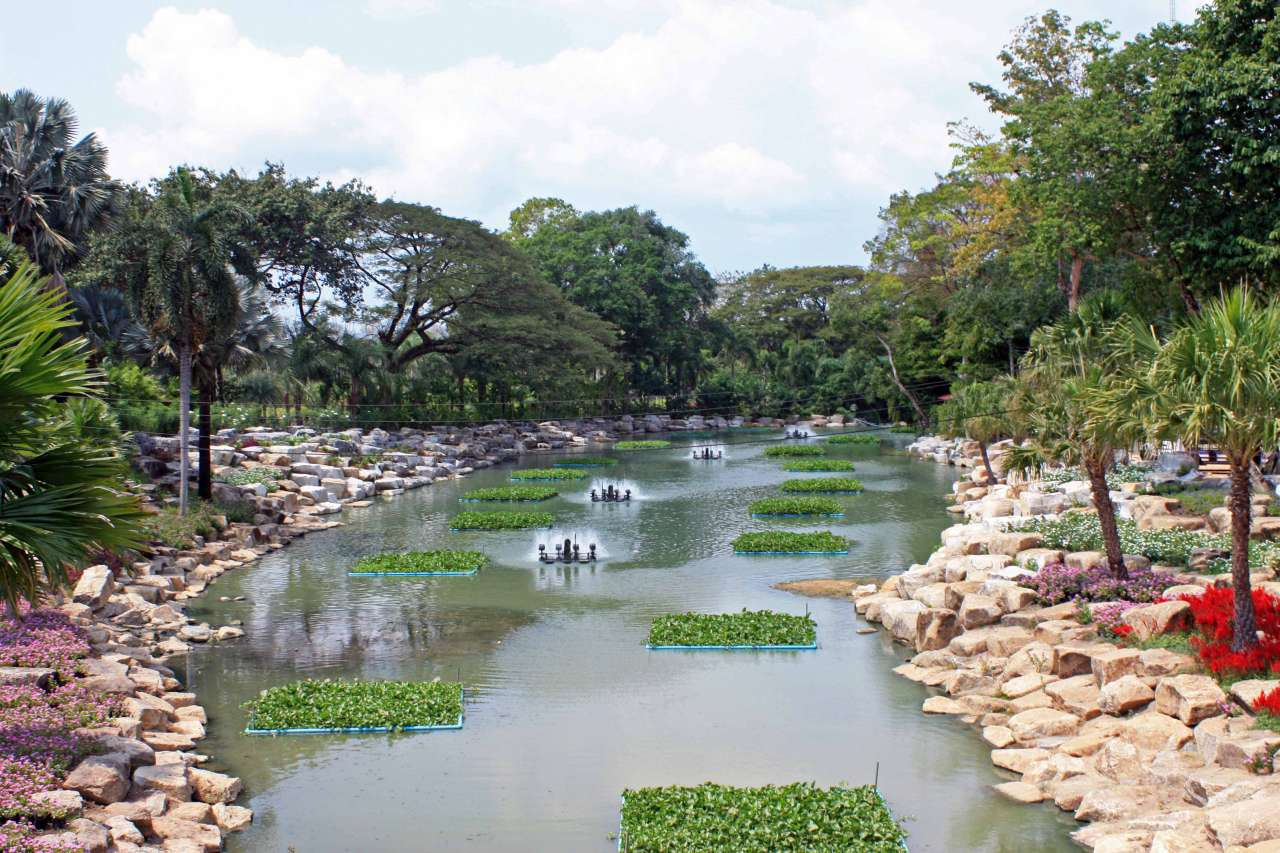 Nong Nooch botanical garden, view from Rope bridge, Thailand